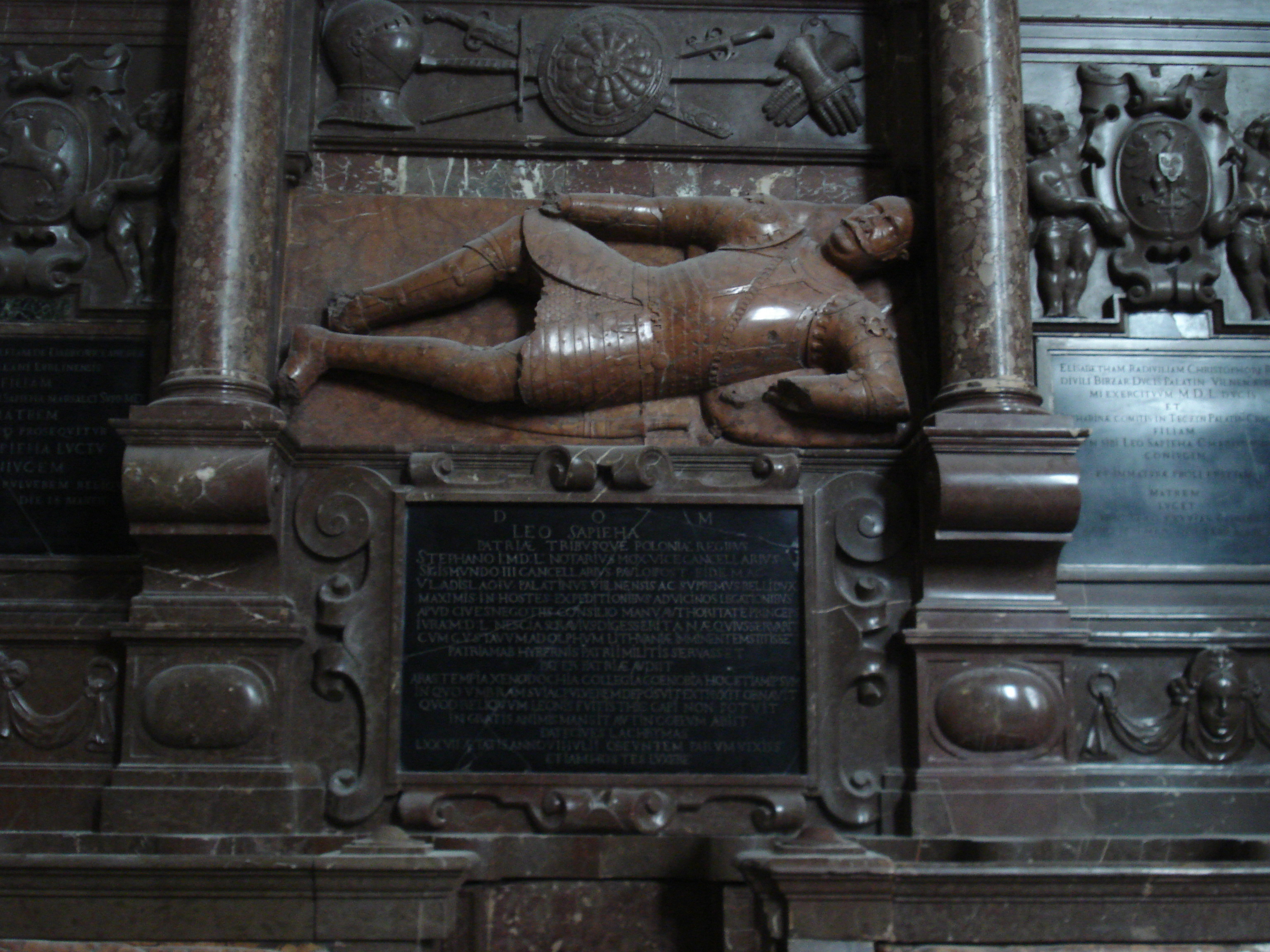 Church of St. Michael in Vilnius. Tomb of Lew Sapieha: Scuplure and epitaph